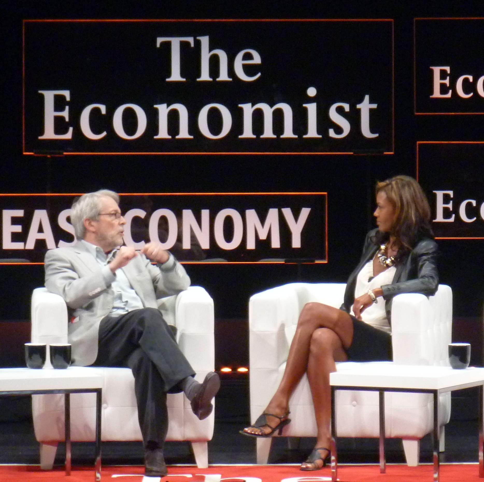 Geoffrey Nunberg and Juliette Powell at Information 2012: Big data and the evolution of smart systems.